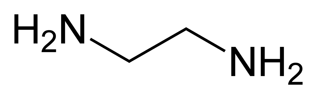 Skeletal formula of ethylenediamine